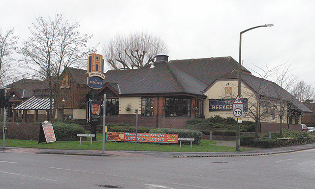 The Beekeeper, Chilwell. Greene King who bought out the historic Nottinghamshire brewery and pub chain Hardy Hanson a couple of years ago have kept the local branding on all the pubs in this area. Update - By the end of the year this had changed 1065709.